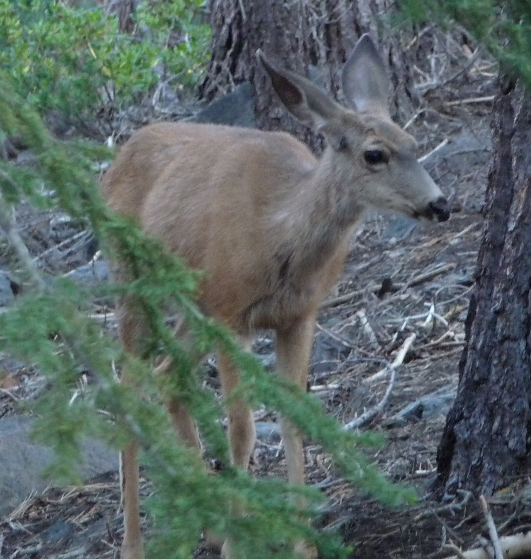 Inyo Crater Lakes - Mule Deer nearby